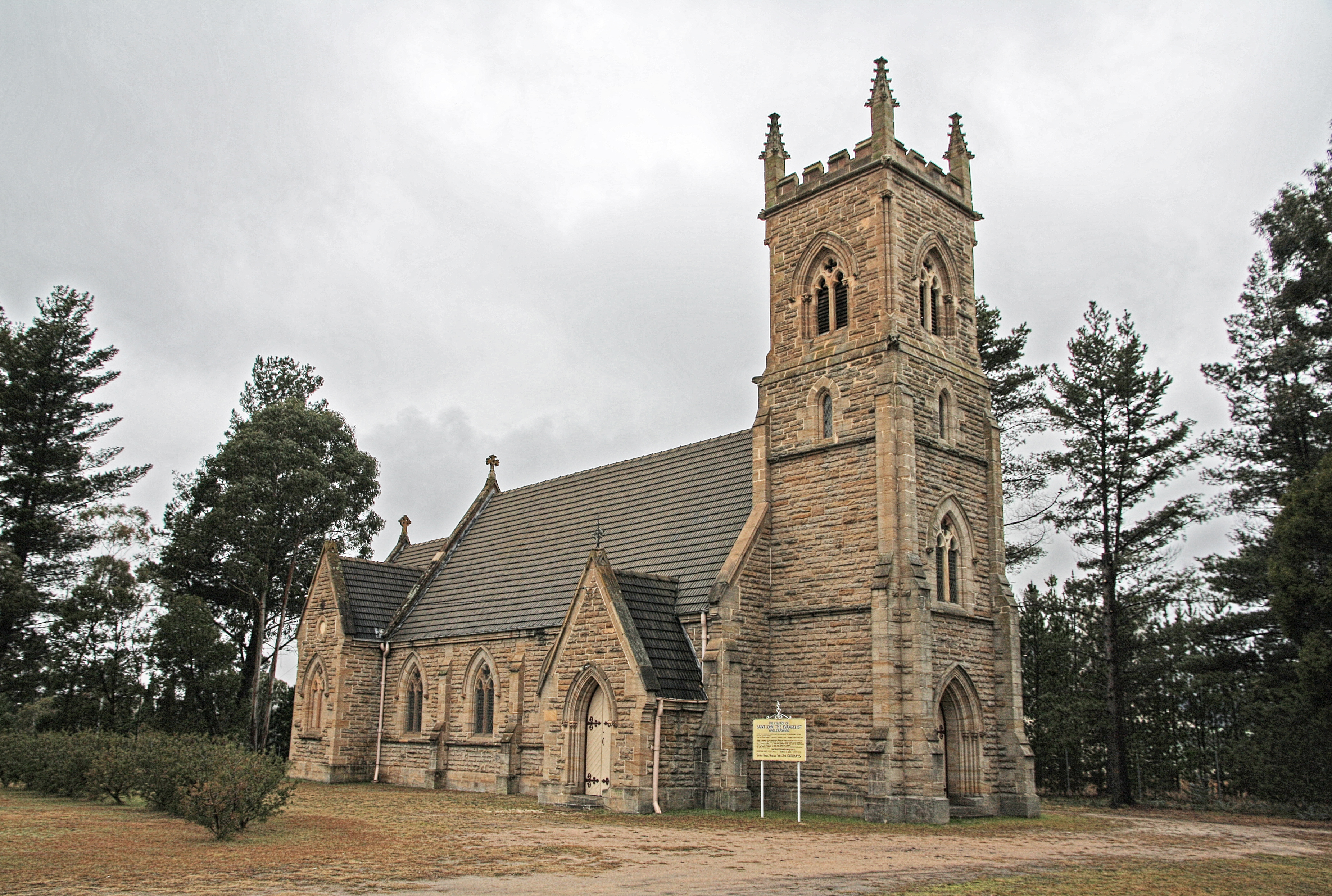 St John the Evangelist Church Wallerawang New South Wales. Designed by Edmund Blacket, opened 1881.